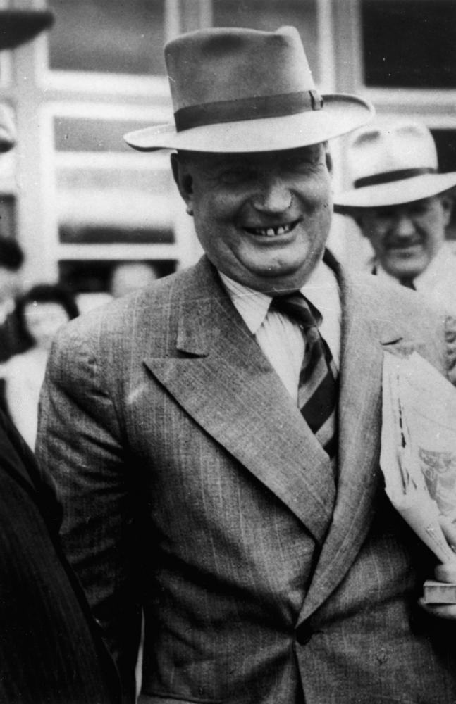 Sir Arthur William Fadden, November 1949. Arthur William Fadden was born in Ingham, North Queensland, in 1895, being the eldest of ten children. He was educated at Walkerston, near Mackay, and his first job at the age of fifteen was as the 'billy boy' to a gang of canecutters, making their tea and doing other odd jobs. In 1913 he moved into local government as Assistant Town Clerk in Mackay. By the age of twenty-one he had qualified in accountancy and was promoted to Town Clerk. He then set up an accountancy practice in Mackay which became the largest in northern Queensland. Fadden's entry into politics was as a Townsville alderman and then as the Country Party member in State Parliament. He lost his seat in 1935, but in 1936 won the federal seat of Darling Downs. In March 1940 Fadden became a minister in the Menzies government. He became minister for Air and Civil Aviation. Fadden was elected leader of the Country Party in March 1941 and was Deputy Prime Minister when coalition in-fighting forced Menzies to resign as Prime Minister in August. He was Prime Minister for forty days. Early in October a hostile Labor amendment rejected his budget and he was obliged to resign. The Governor-General commissioned John Curtin as his successor. Fadden stayed in politics and eventually became Treasurer in the Menzies government between 1949 and 1958, a position in which he showed great strength under pressure and great acumen in planning long-term financial policies. He retired from politics in December 1958 and died in Brisbane on 21 April 1973.